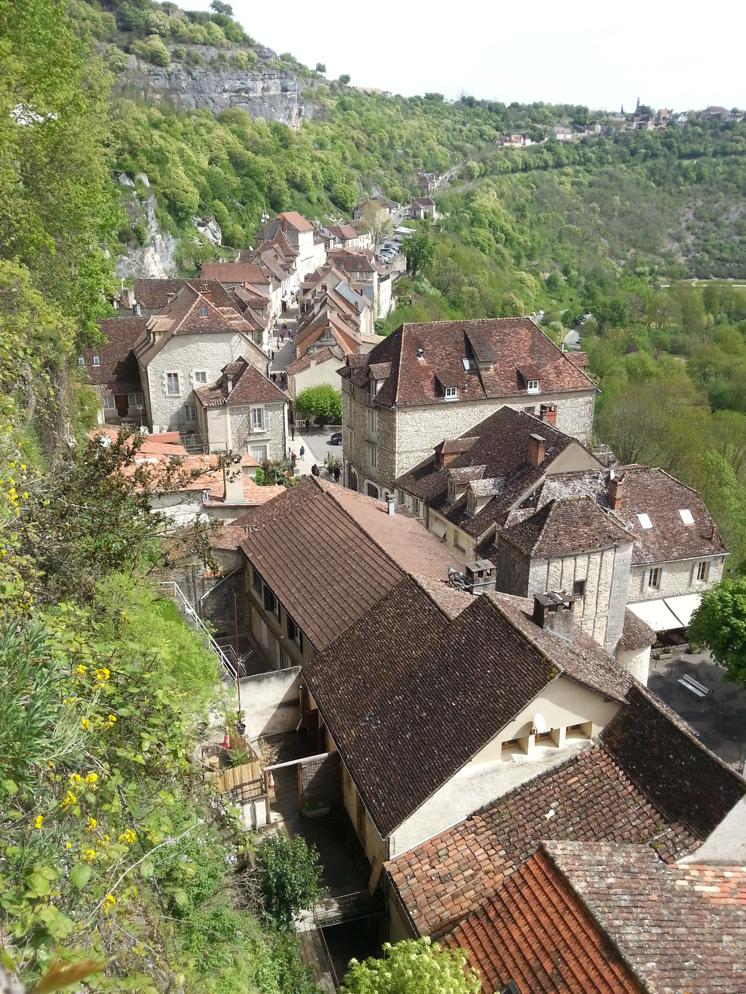 Lower level of Rocamadour, the main street